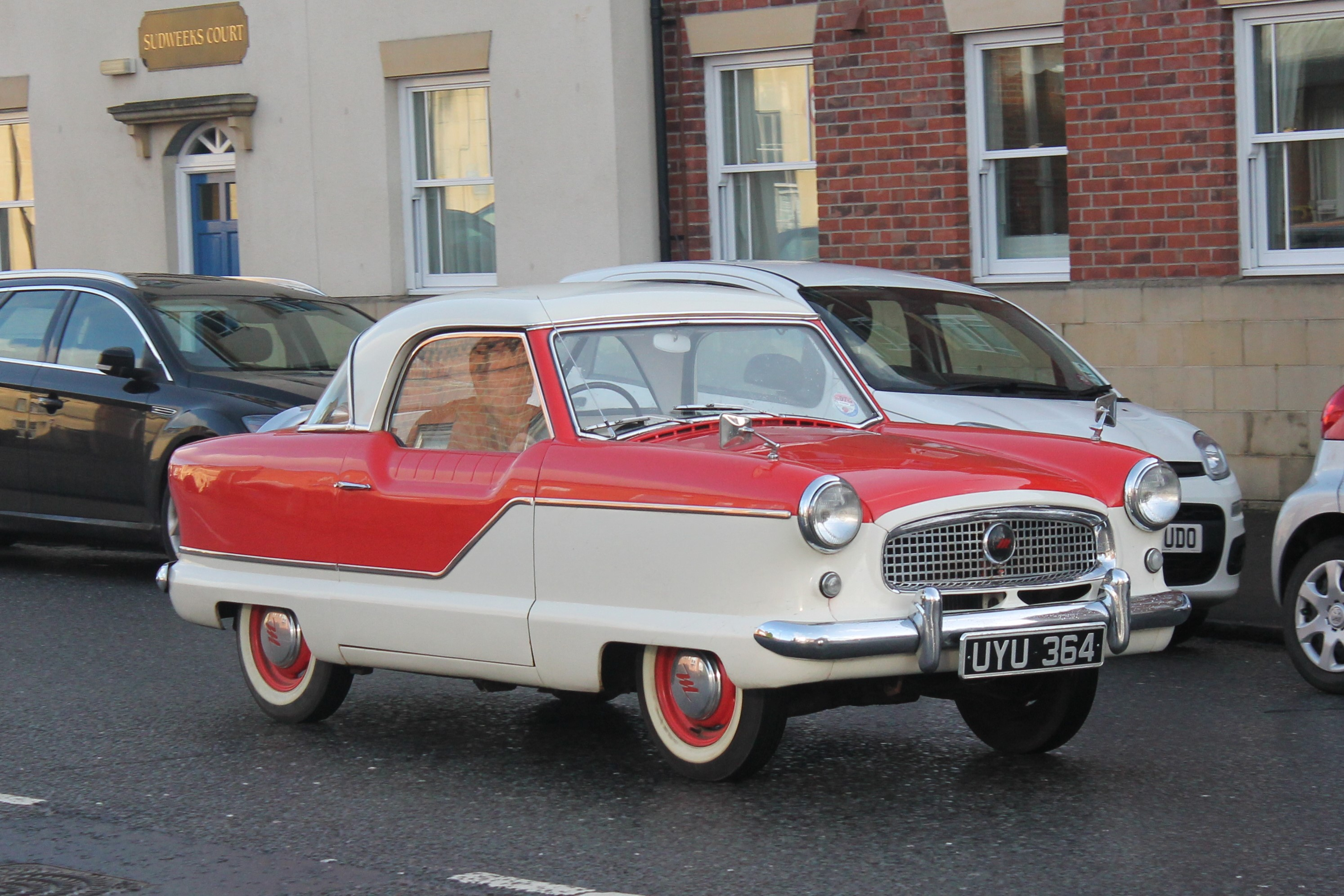 Great little things, and lovely to spot one bouncing down the road towards you. You almost never see these outside shows. These are actually American designed cars, where they're called the Nash Metropolitan, but some were sold new in Britain and called the Austin Metropolitan. This is one of the original RHD ones. An estimated 1,200 of these were sold in four years. Interestingly the name of these were sometimes shortened to Austin Metro, over twenty years before the Metro we all know. The vehicle details for UYU 364 are: Date of Liability 01 08 2014 Date of First Registration 05 03 1958 Year of Manufacture 1958 Cylinder Capacity (cc) 1489cc CO₂ Emissions Not Available Fuel Type PETROL Export Marker N Vehicle Status Licence Not Due Vehicle Colour RED Vehicle Type Approval Not Available